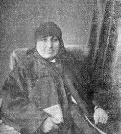 Srpuhi Mayrabed Nshan Kalfayan (Սրբուհի Մայրապետ Նշան Գալֆաեան, 1822-1889). Lived in Constantinople, founder of the Kalfayan order; she founded a professional school for girls in 1850 and an orphanage in 1866.